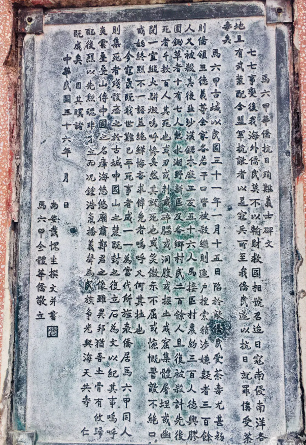 马六甲华侨抗日殉难碑文